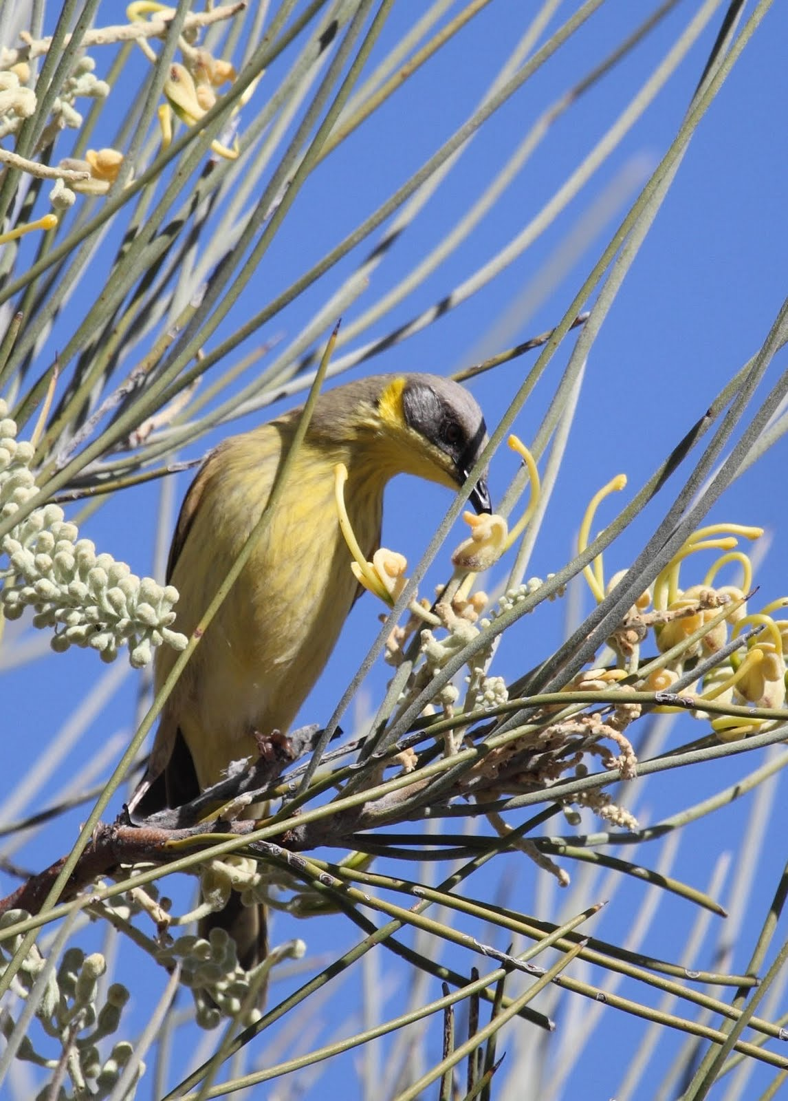 Grey-headed Honeyeater (Lichenostomus keartlandi), Northern Territory, Australia